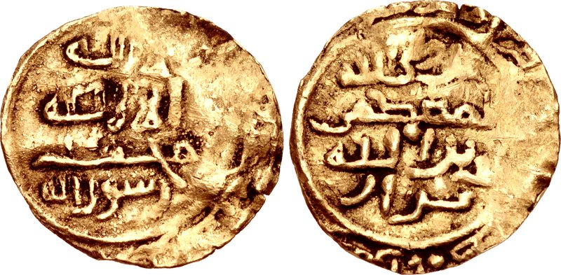 ISLAMIC, Persia (Post-Seljuk). Nizari Isma'ilis (Assassins in Persia). 'Ala Dhikrihi 'l-Salam Hasan II. AH 557-561 / AD 1162-1166. AV ¼ Dinar (16mm, 1.13 g, 7h). “Kursi al-Daylam” (Alamut) mint. Album 1919; Zeno 36837 (this coin). Good VF, short flan.